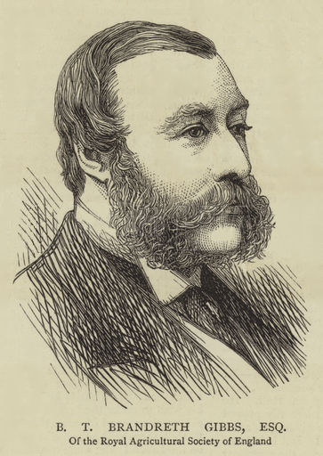 Print of Benjamin Thomas Brandreth-Gibbs (1821-1885)